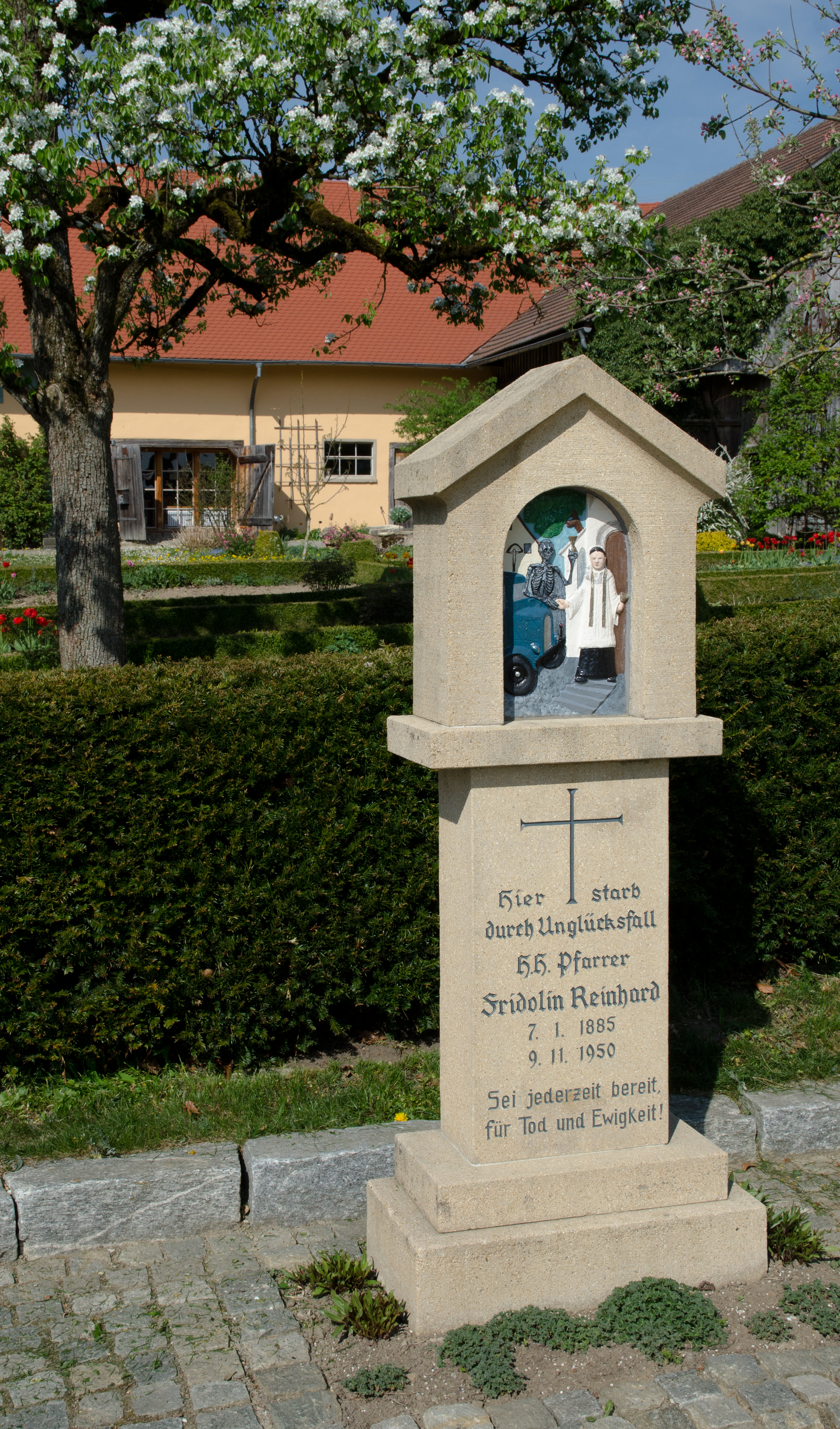 Memorial stone for the late priest of Illmensee-Ruschweiler, who died in an accident, Landkreis Sigmaringen, Baden-Württemberg, Germany